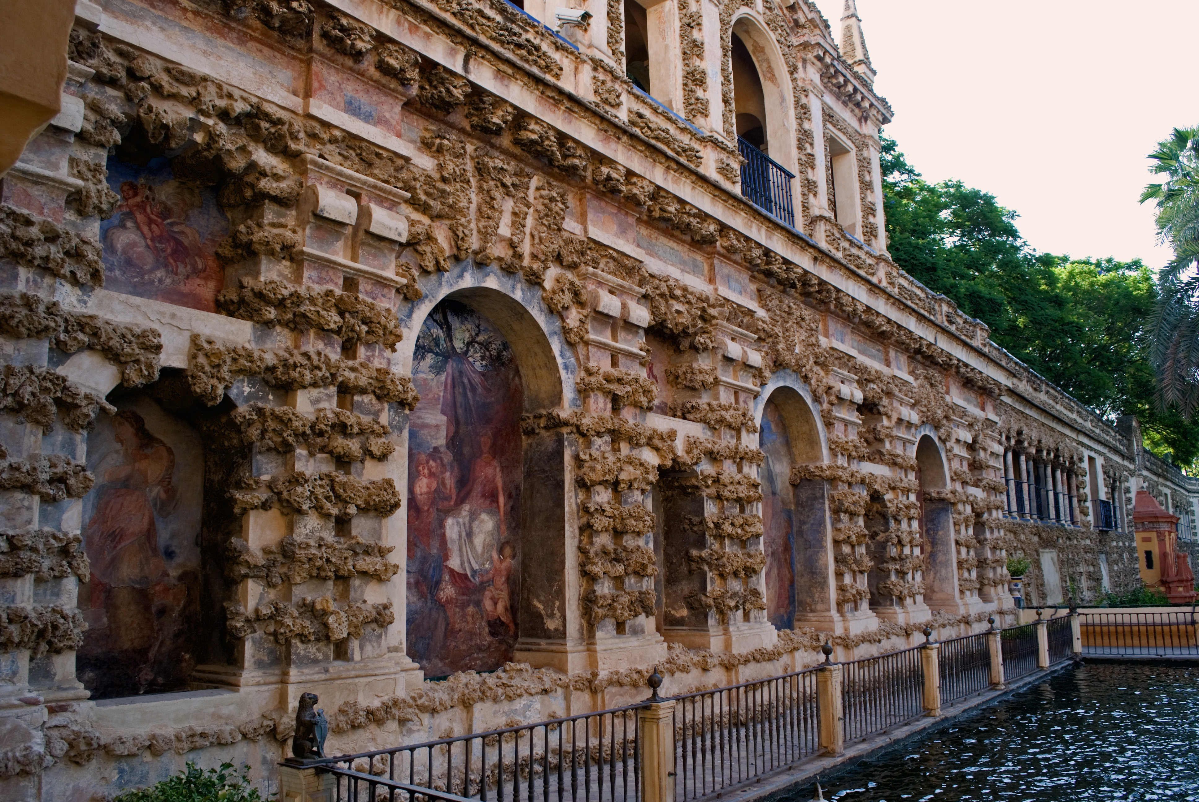 Gardens of Alcazar of Seville